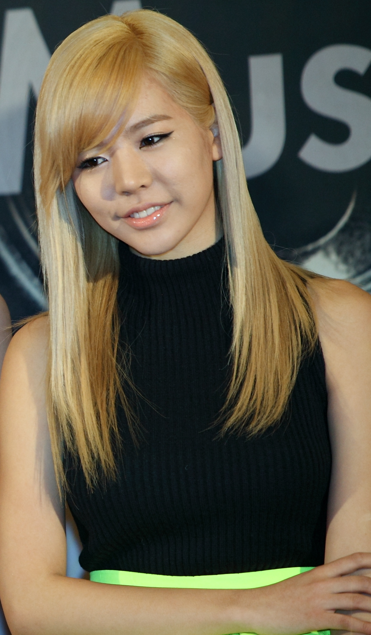 Susan Lee (Sunny Lee) at the 2010 Melon Music Awards on December 15, 2010.